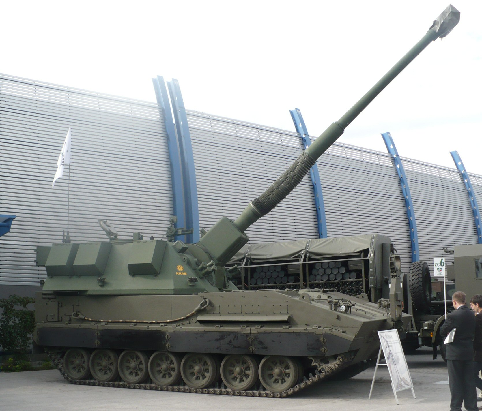 Polish Krab 155 mm SP-gun - series vehicle.